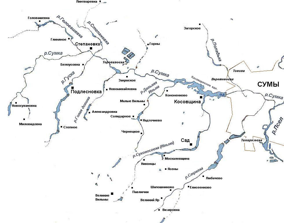 The river of Sumka